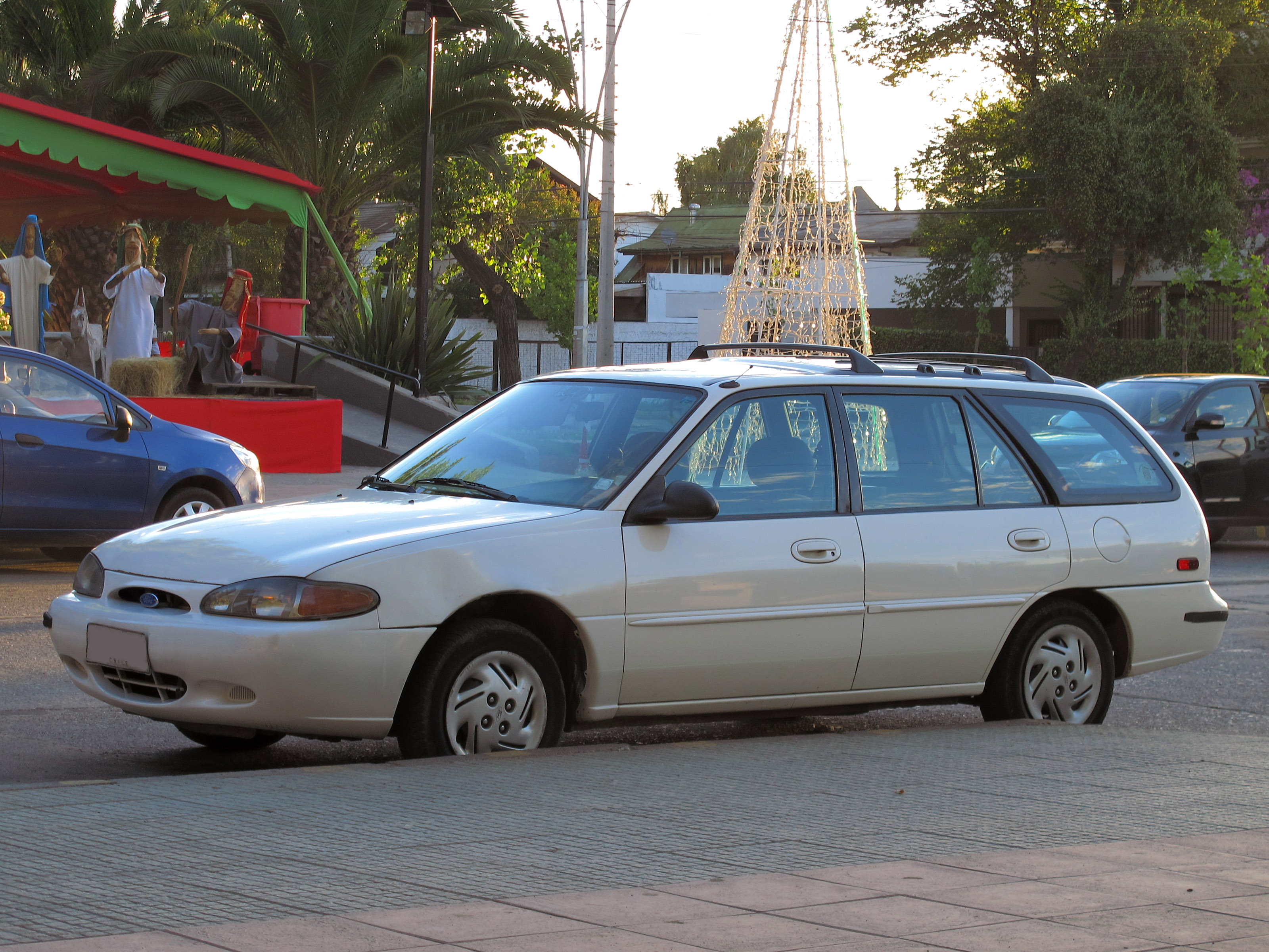 Ford Escort 2.0 LX Wagon 1997